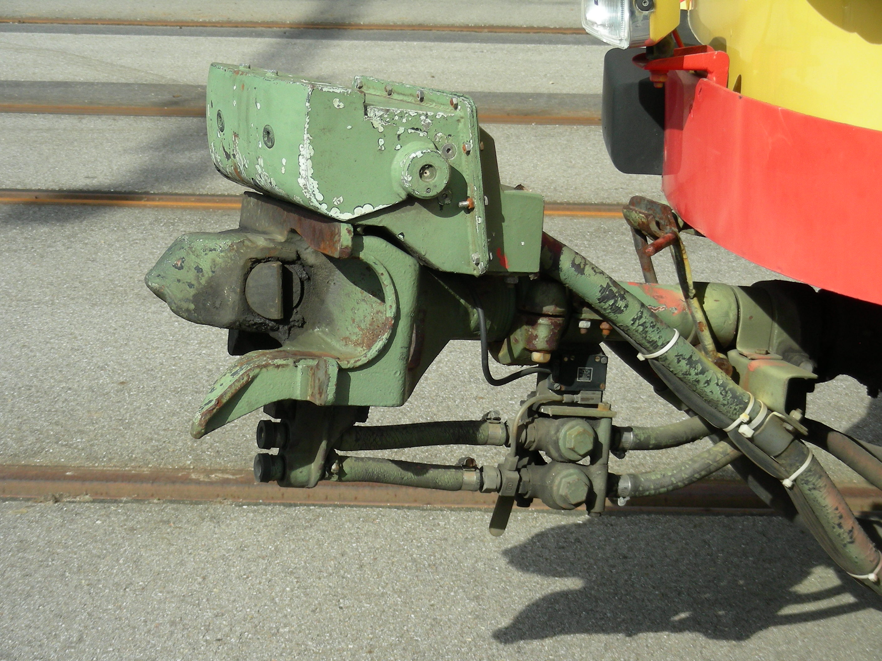 BSI coupler of a tramcar in Karlsruhe